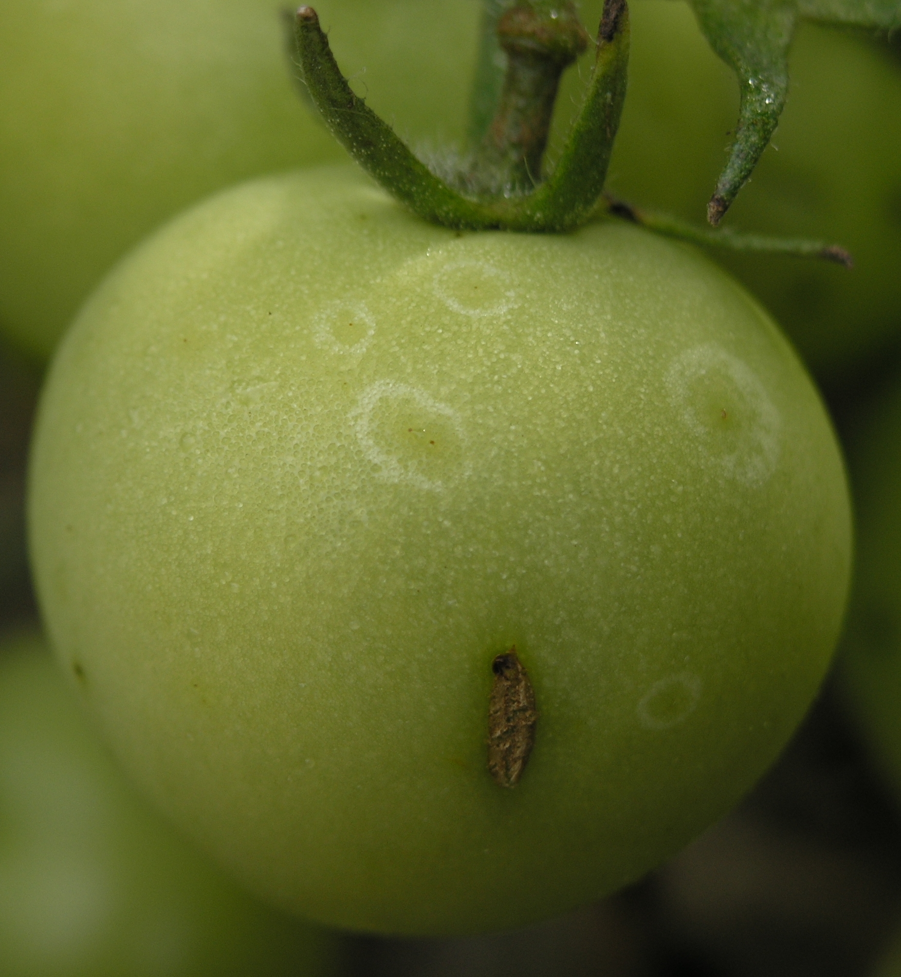 Tomate Pink Brandywine Fruchtplatzer / tomatoe fruit cracking